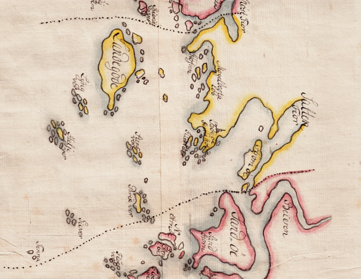 Sea map of the coast of the Norwegian city of Bodø. The maps is drawn by hand by Holtz forster Mautz, in an unknown scale. The map is an extract of a map of the whole coast of Northern Norway, which is held in Stavanger. See full map here: File:Sjøkart over kysten av Nord-Norge, fra grensen mot Nord-Trøndelag til Arnøya, fra 1747.png